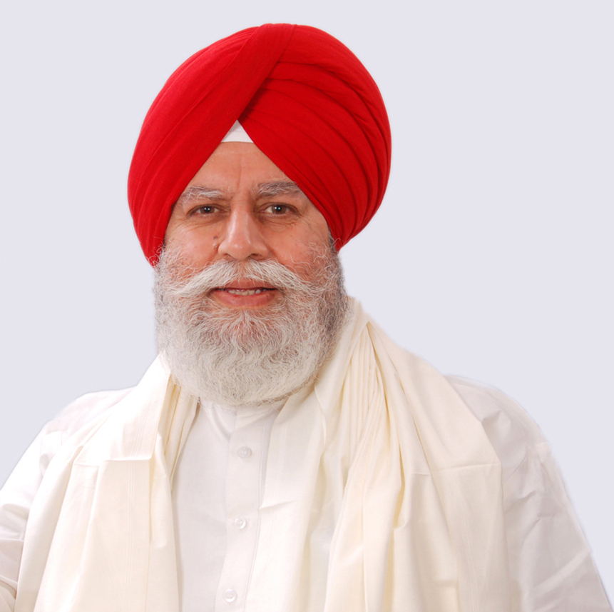 SS Ahluwalia , Member of Parliament, Darjeeling, West Bengal, & National Vice President, Bharatiya Janta Party